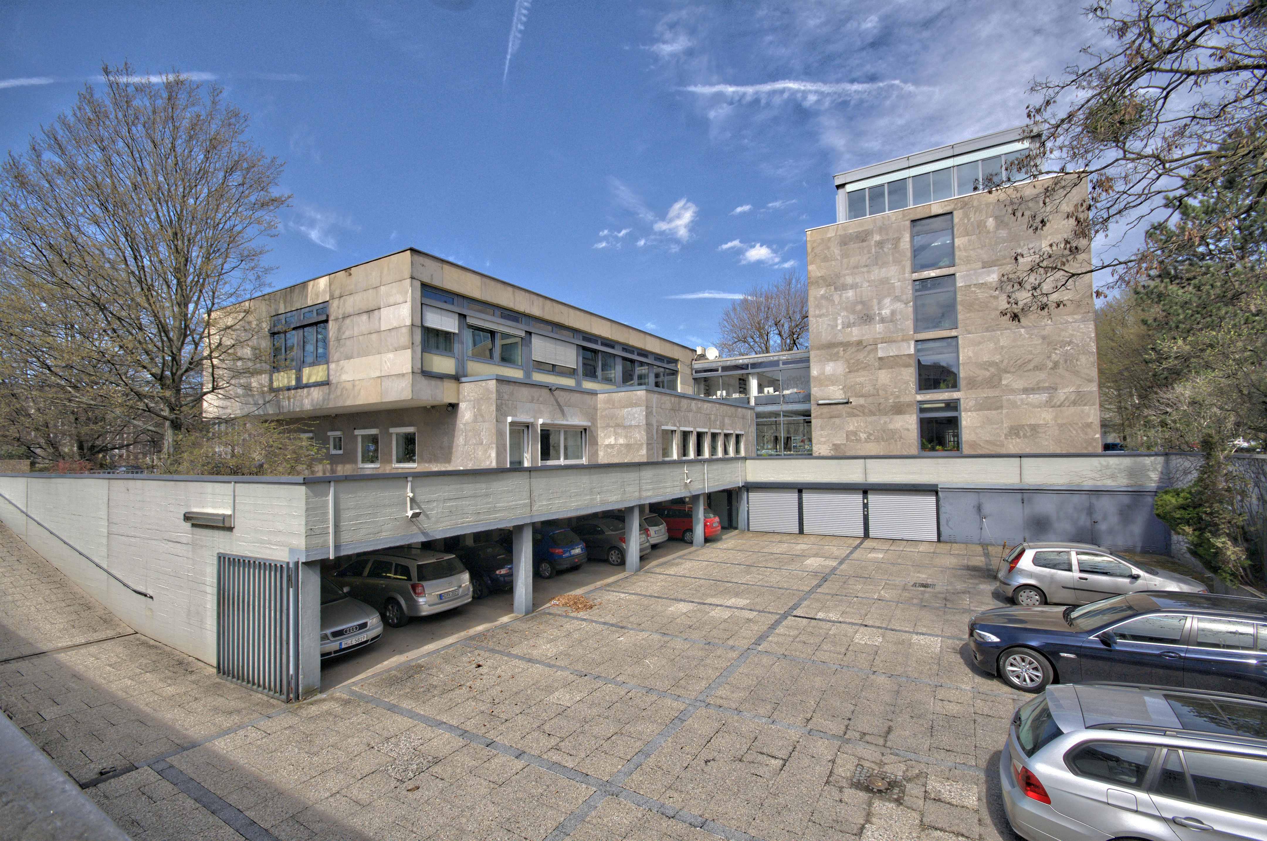 Wikipedia im Landtag – Niedersachsen 17. bis 18. April 2013 in Hannover Fragen zur Nachnutzung Wenn Sie Fragen zur Nachnutzung dieses Bildes haben, können Sie sich jederzeit gern an wenden Personality rights warning This work depicts one or more identifiable persons. The use of depictions of living or deceased persons may be restricted by laws regarding personality rights. The extent of these restrictions depends on jurisdiction. Personality rights restrictions apply independently of copyright. Before using this content, please ensure that the intended use does not infringe any personality rights under applicable laws. You are solely responsible for ensuring that you do not infringe someone else's personality rights. See our general disclaimer.